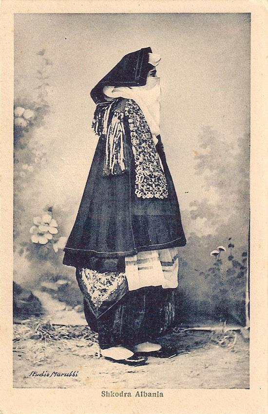 Photograph of an Albanian woman from Shkodra by Pjetër Marubi.